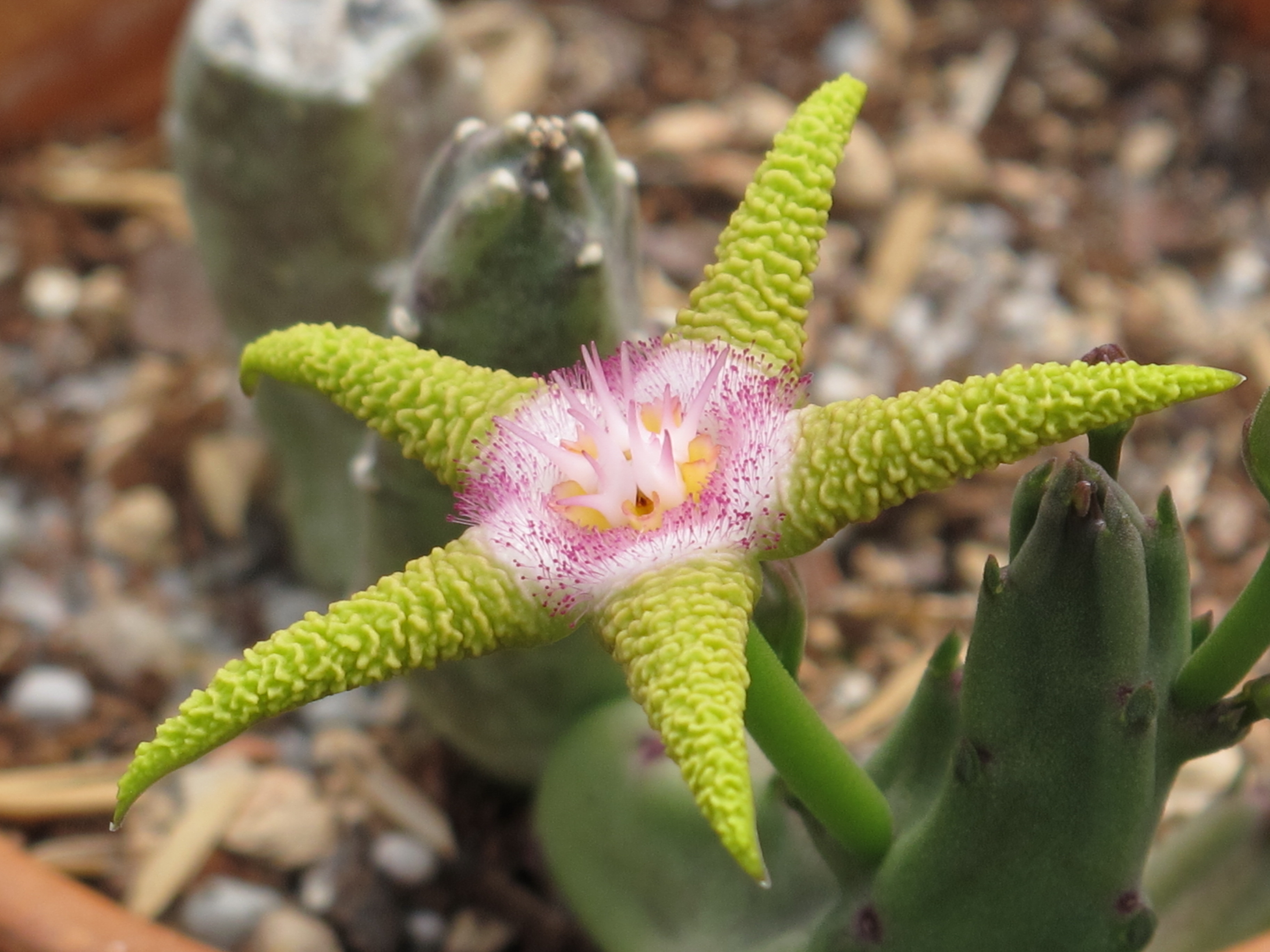 Stapelia flavopurpurea. Biological Sciences greenhouse, Florida International University, Miami, Florida, USA. Another shot of this beauty! This one is faintly but very pleasantly fragrant.